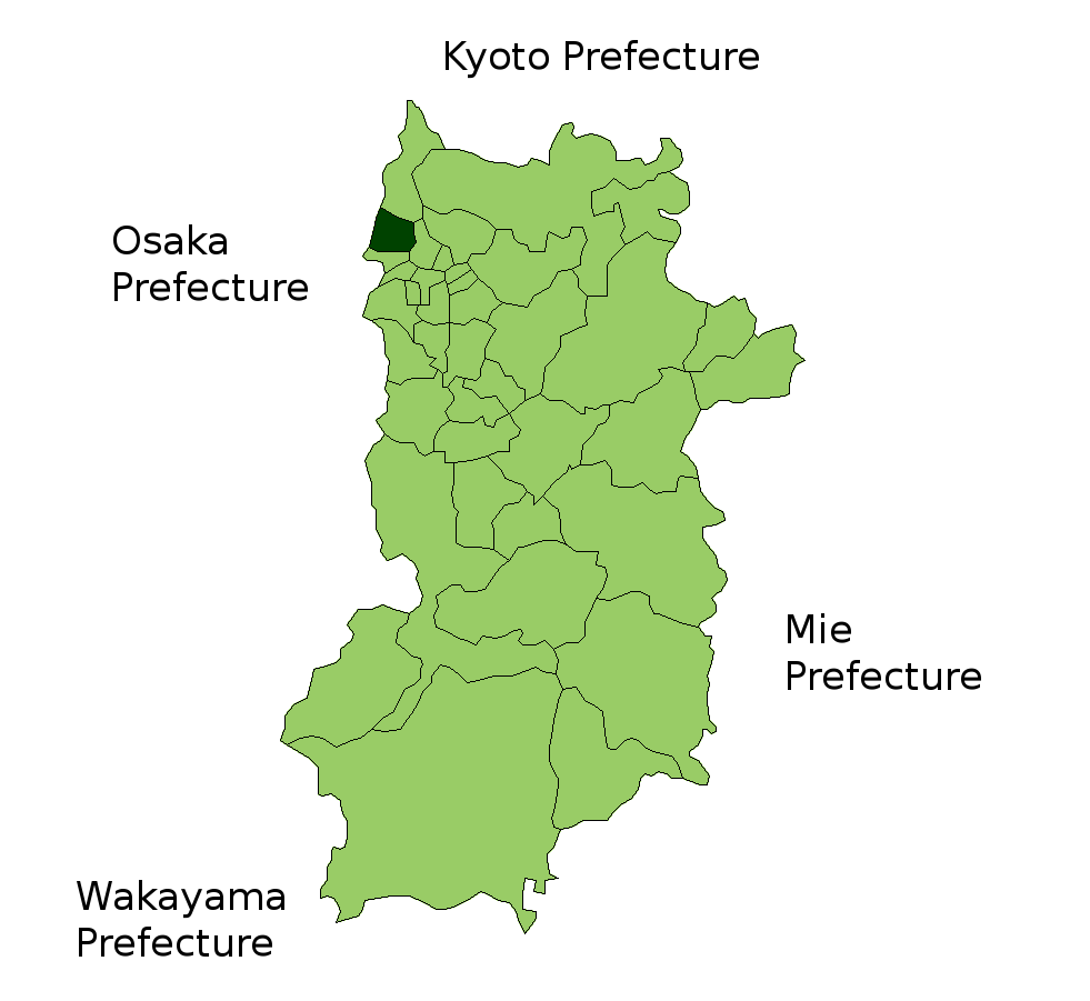 Location Map of Heguri in Nara Prefecture, Japan